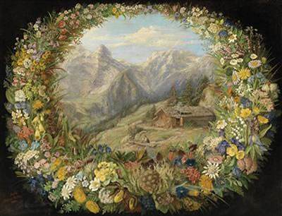 Alpine Landscape Framed by a Floral Wreath